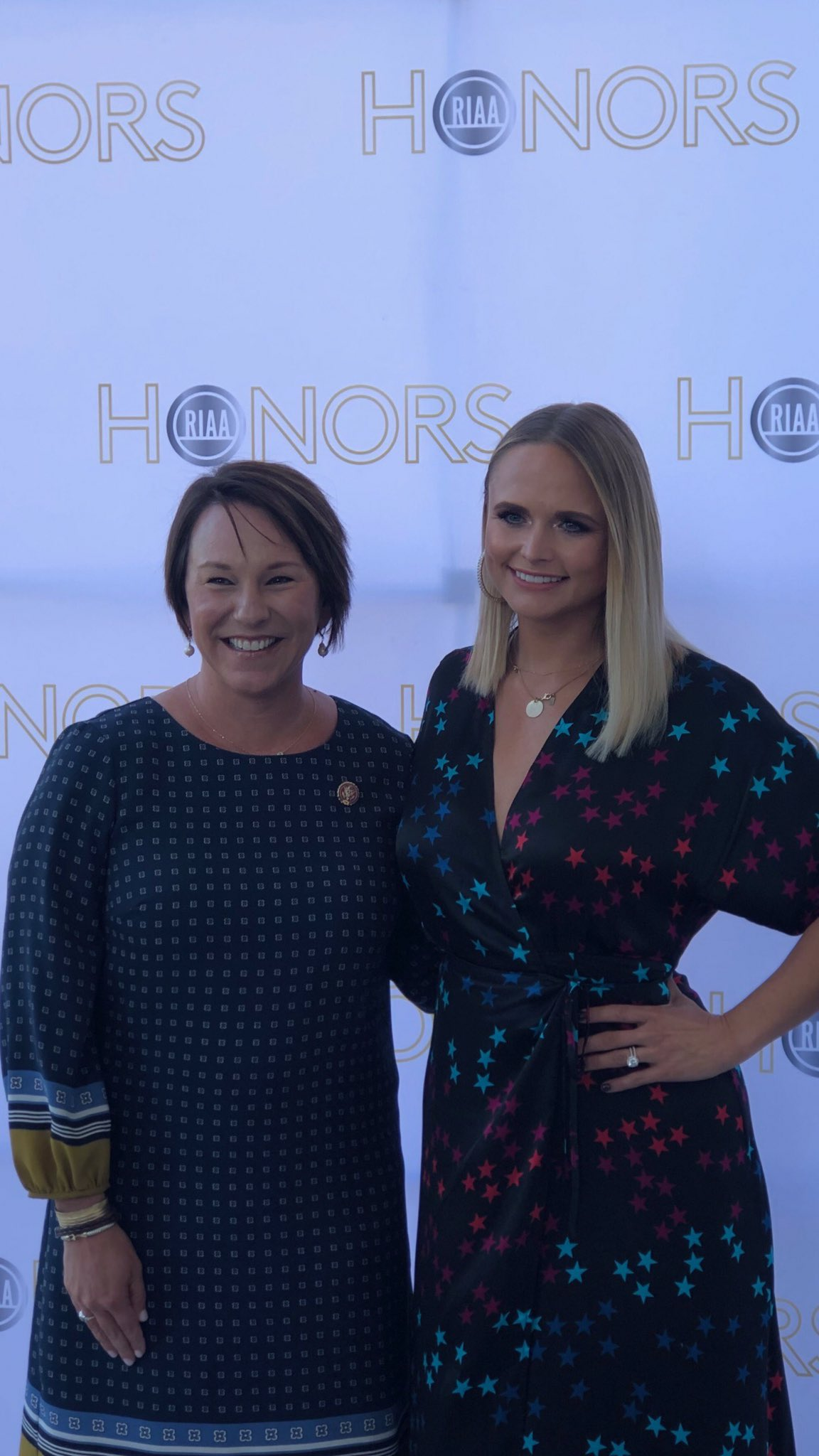 Martha Roby and Miranda Lambert -- Last night in DC, @RIAA honored @mirandalambert as the 2019 #RIAAHonors Artist of the Year. I really enjoyed attending the event & meeting Miranda for the first time! She is an incredibly talented artist. Amazing event. 🎶 🎤